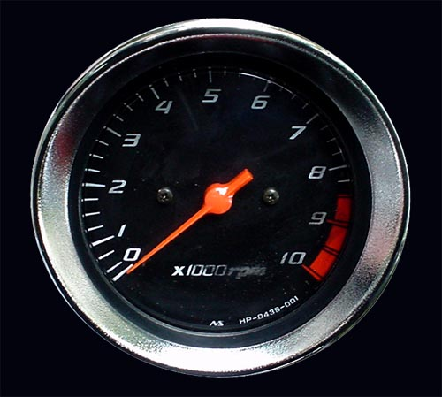 a rev counter of motorcycle